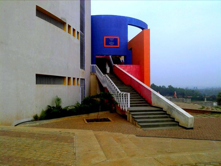 International Academy for Competency Enhancement